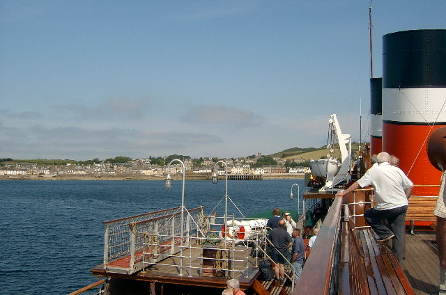 Approaching Millport, Great Cumbrae, on PS Waverley, the world's last sea-going paddle steamer.